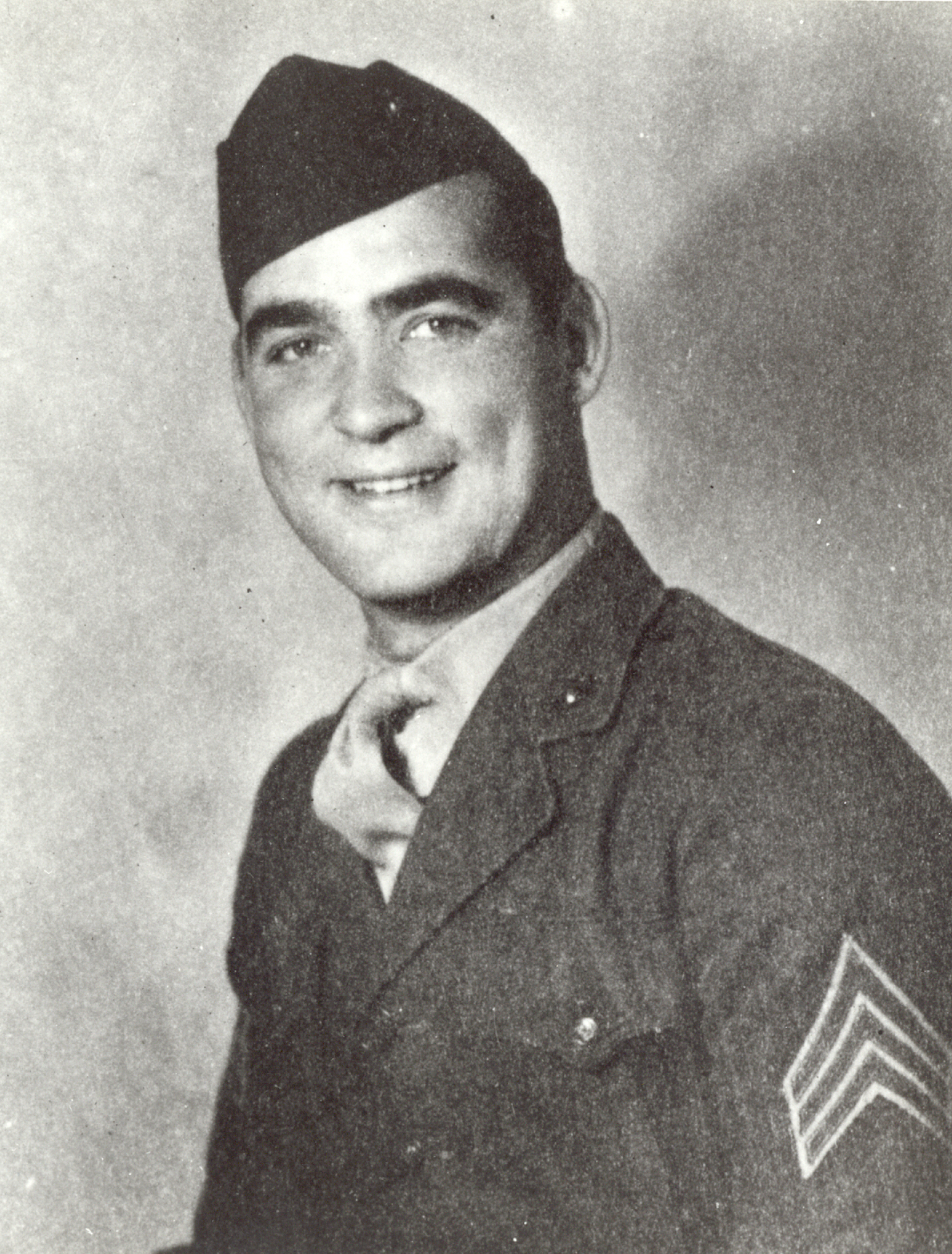 Robert H. McCard, USMC, Medal of Honor recipient